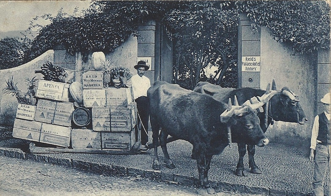 Postcard from the island of Madeira, Portugal, sent in 1914 from Funchal (the capital of the island and the archipelago of Madeira). The postcard was printed in "collotype", with great quality and clarity. The photographer who originally obtained the image was "MOP" (Manoel D'Olim Perestrello), by the year 1914 (between 1900 and 1914). In this view we see a "corsa" pulled by two oxen, with a different cargo box of mineral water (brand Apollinaris) and Madeira wine, fruit and pumpkins. This photograph was taken next to a door "Reid's Palace Hotel." These goods were for consumption by tourists staying at this hotel in Funchal. A "corsa" - or "corça de bois" was an ancient means of transport, characteristic of the island of Madeira.